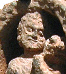 Detail of the face of a Kushan devotee. Musee Guimet. Personal photograph 2005. Detail from another angle of